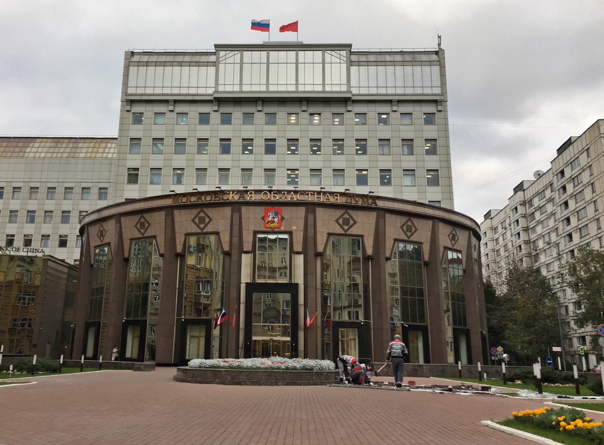 Moscow Oblastnaya Duma Building